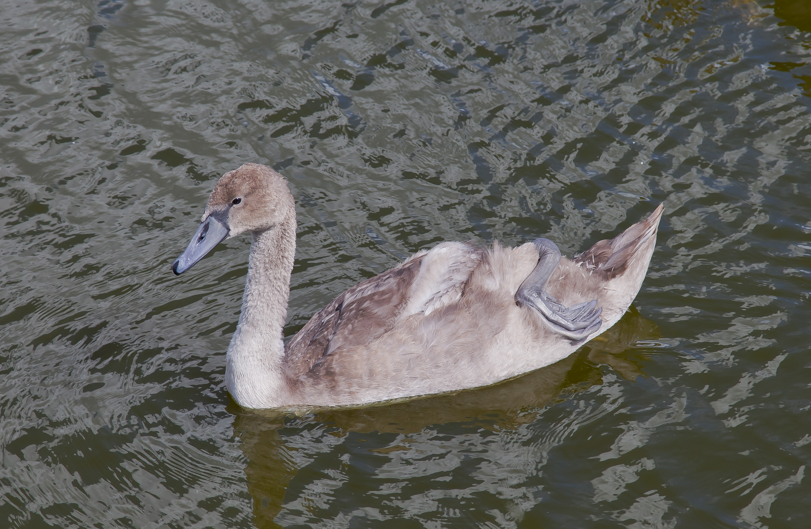 Swan (Cygnus olor), Siauliai, Lithuania